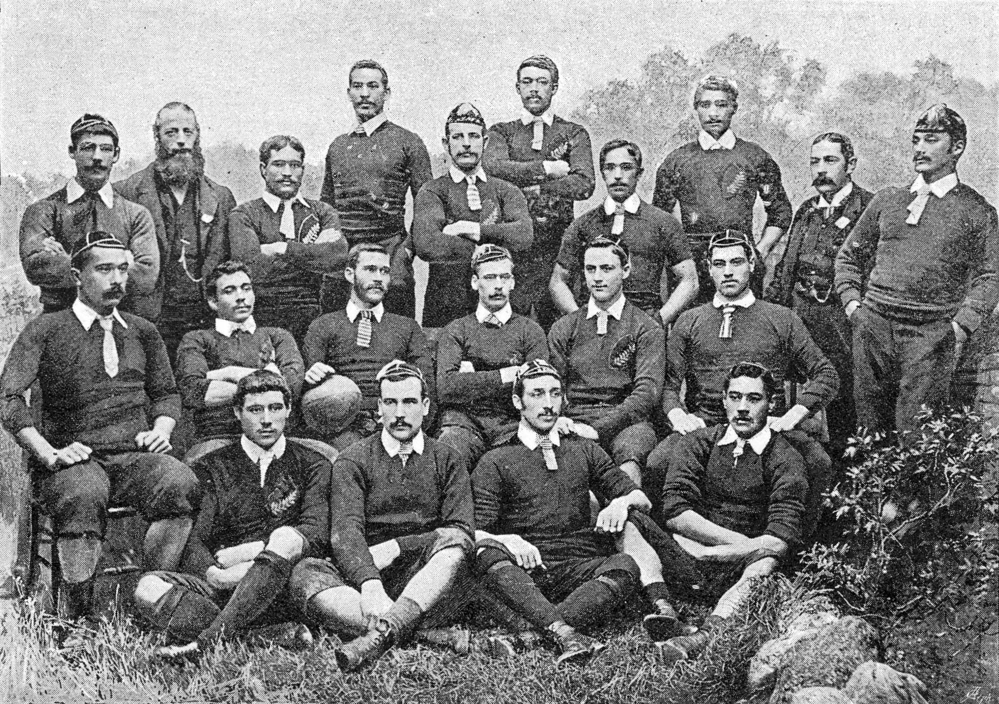 Photograph of the 1888–89 New Zealand Native football team that toured the British Isles, Australia and New Zealand playing rugby union.